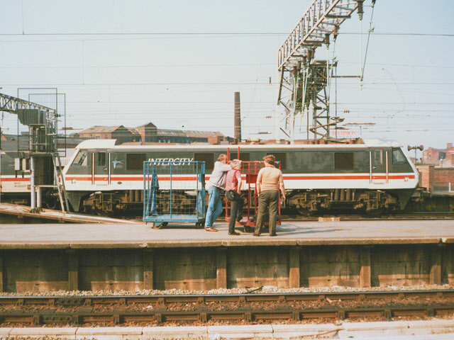 Trainspotters and BRUTEs at Piccadilly Apart from the Class 90 loco in the background (which has been superseded on London services by Pendolino tilting trains), two aspects of this scene date the photo: One is the trainspotters, who seem to be a dying breed. The other is the large blue and red parcels trolleys, known as BRUTEs (British Railways Universal Trolleying Equipment). They could be found at all but the smallest stations up to the 1990s, sometimes drawn by tractors in long 'trains' themselves, but have now disappeared.